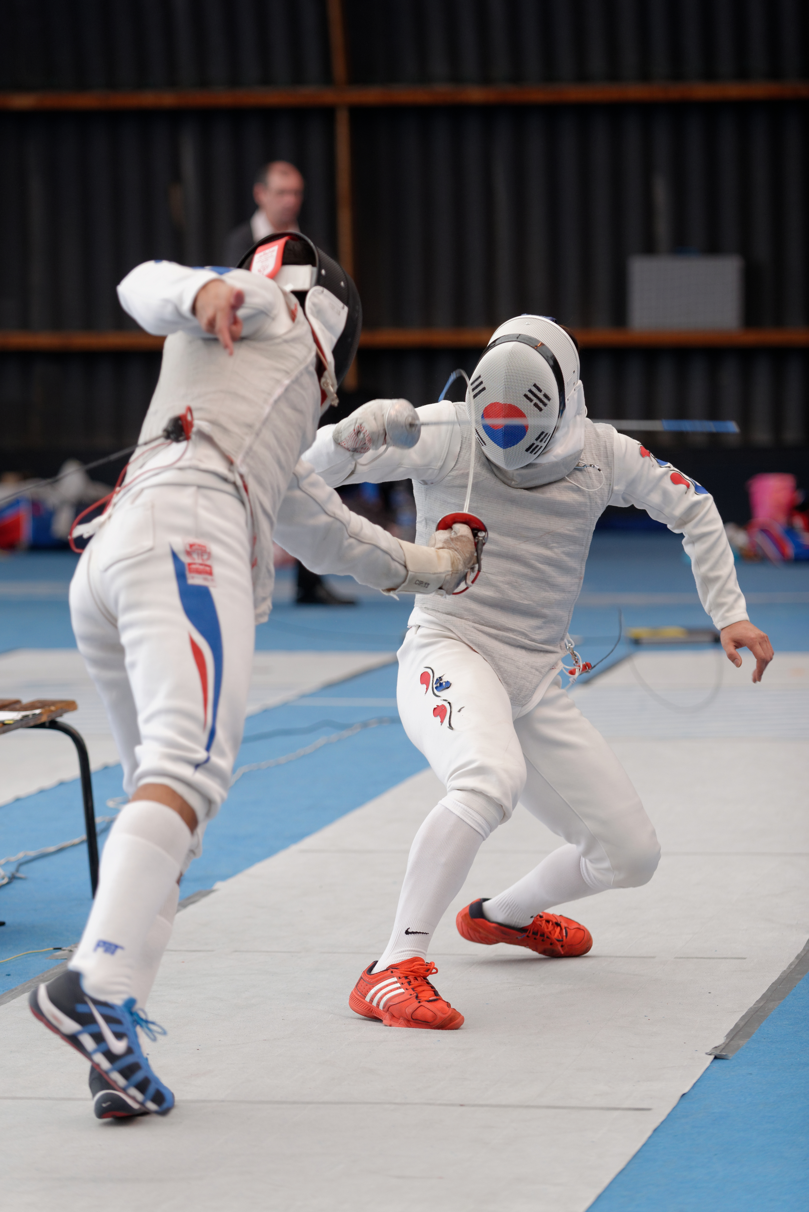 Ghislain Perrier (from the back) v Choi Byung-chul (facing the viewer) at the Challenge Revenu 2013 in Melun, France.